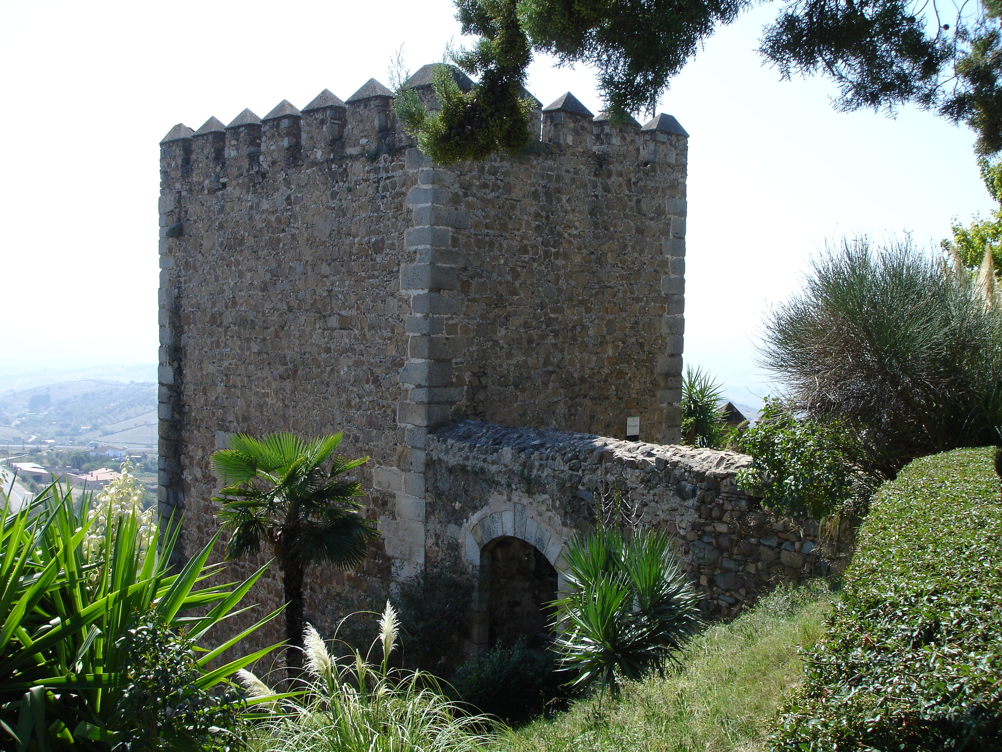 Templars castle in Jerez de los Caballeros